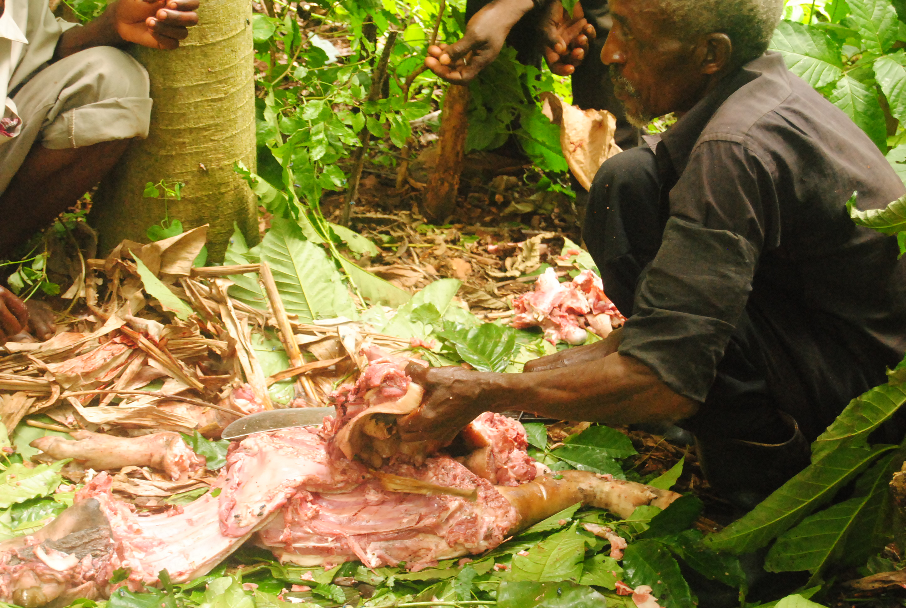 this is what happens after hunting This is an image of Cultural Fashion or Adornment from Uganda